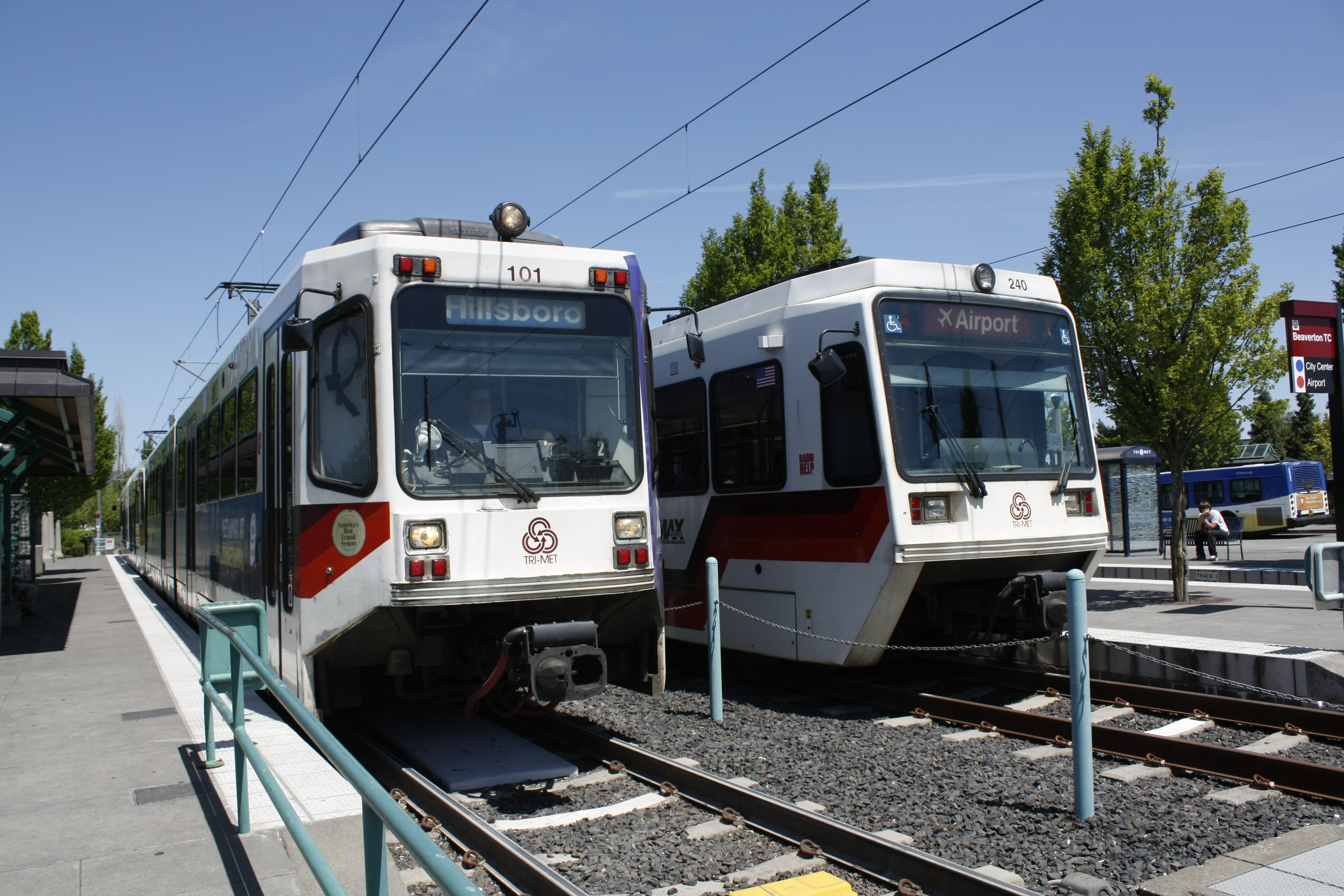 TriMet MAX trains at Beaverton Transit Center in Beaverton, Oregon, USA. A Blue Line train departing for Hillsboro is on the left, and a Red Line train waiting to depart for Portland International Airport is on the right.